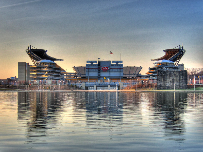 Heinz Field, Pittsburgh, Pennsylvania. Home of the Pittsburgh Steelers.